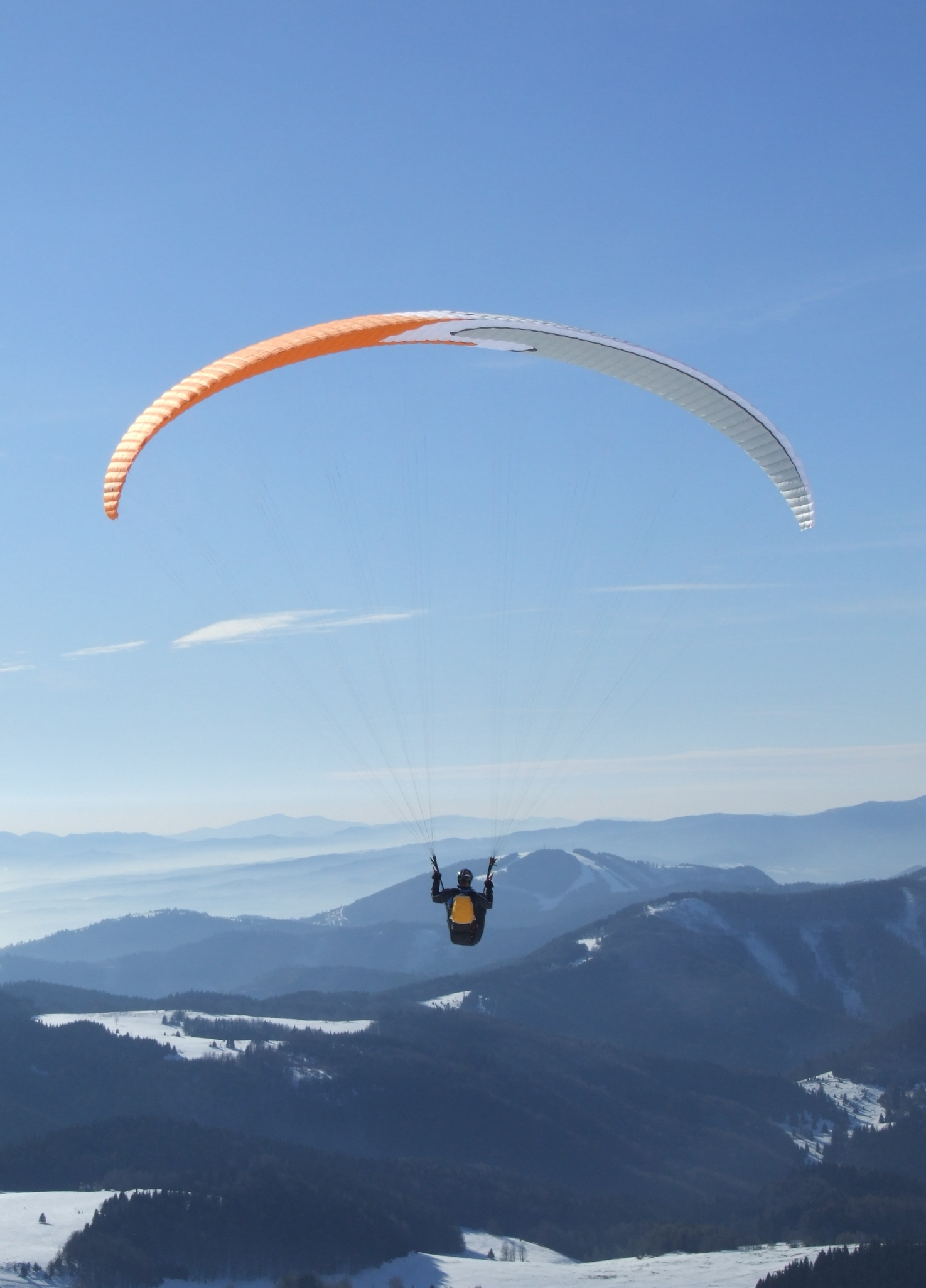 Paraglider in Veľká Fatra, Slovakia